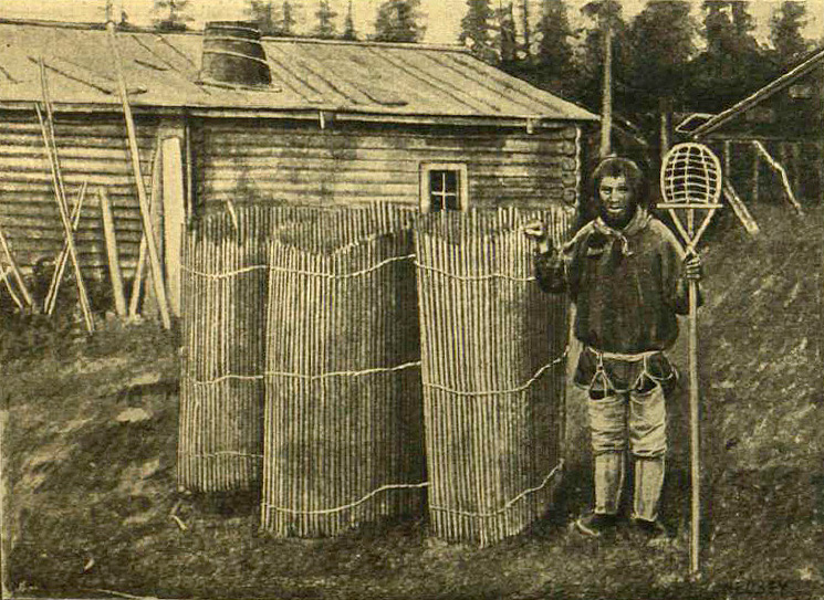 Khanty fishing (Big-Yugan River, Siberia, Russia). From the book of János Jankó A magyar halászat eredete (The source of the Hungarian fishing), 1900.